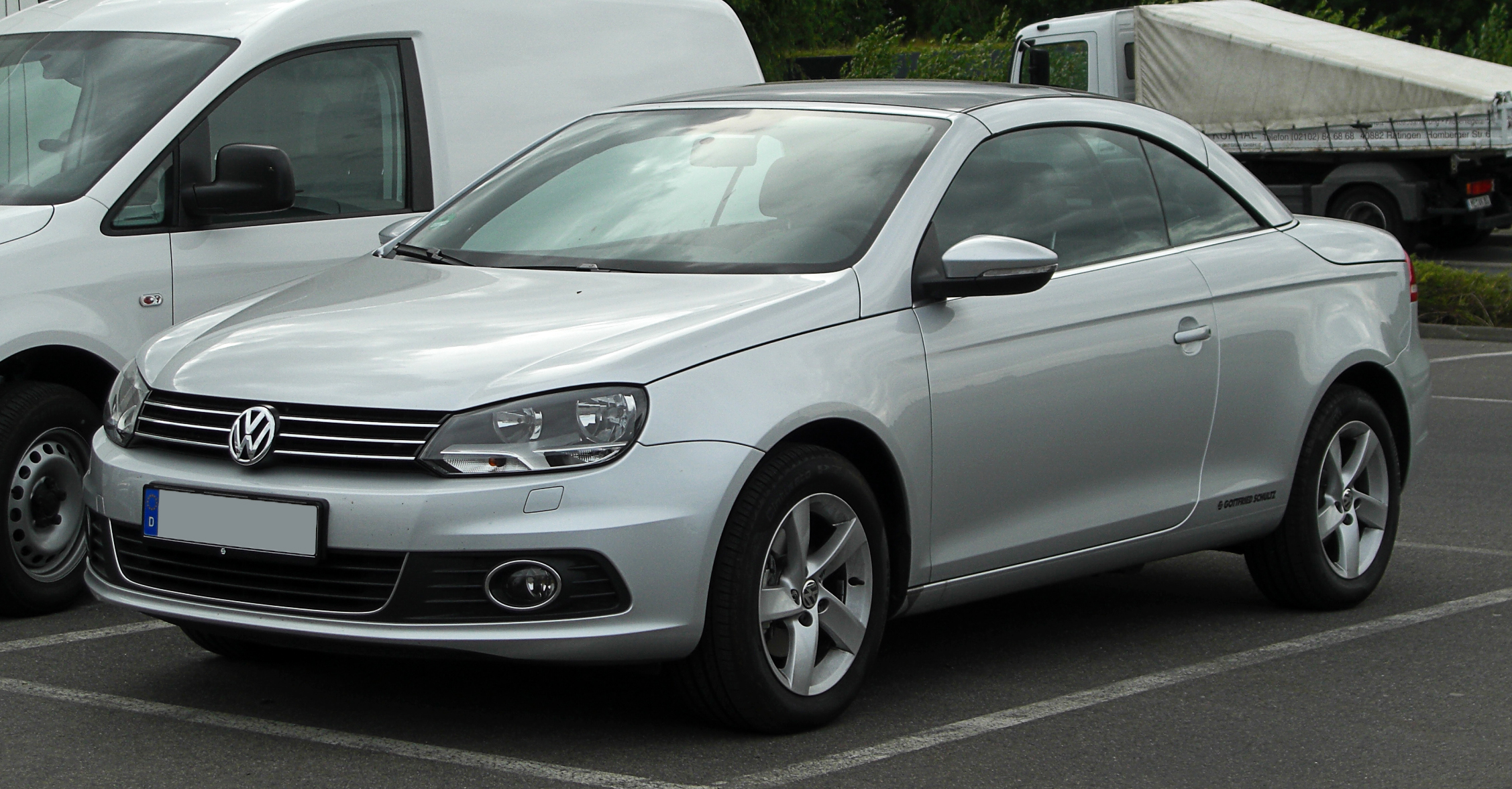 VW Eos 1.4 TSI BlueMotion Technology (Facelift)